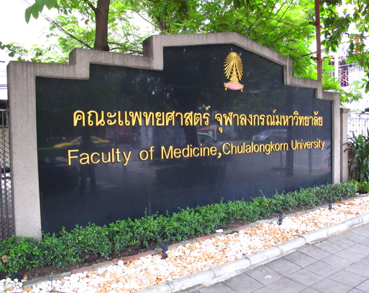 Faculty of Medicine, Chulalongkorn University